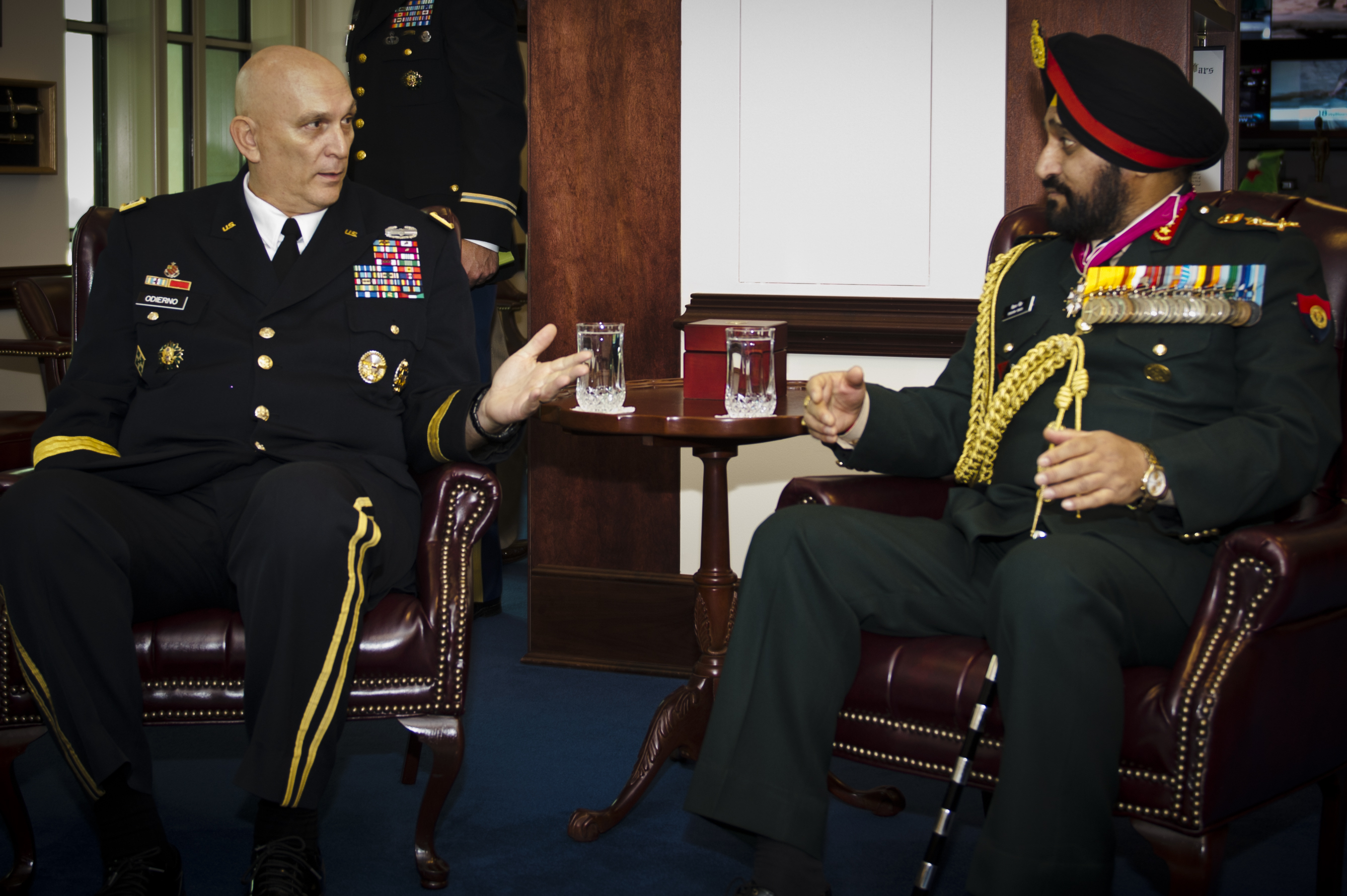 Chief of Staff of the United States Army, Gen. Raymond T. Odierno speaks with Gen. Bikram Singh, Chief of Staff of the Indian Army, during an office call to the Pentagon in Washington, Dec. 5, 2013.